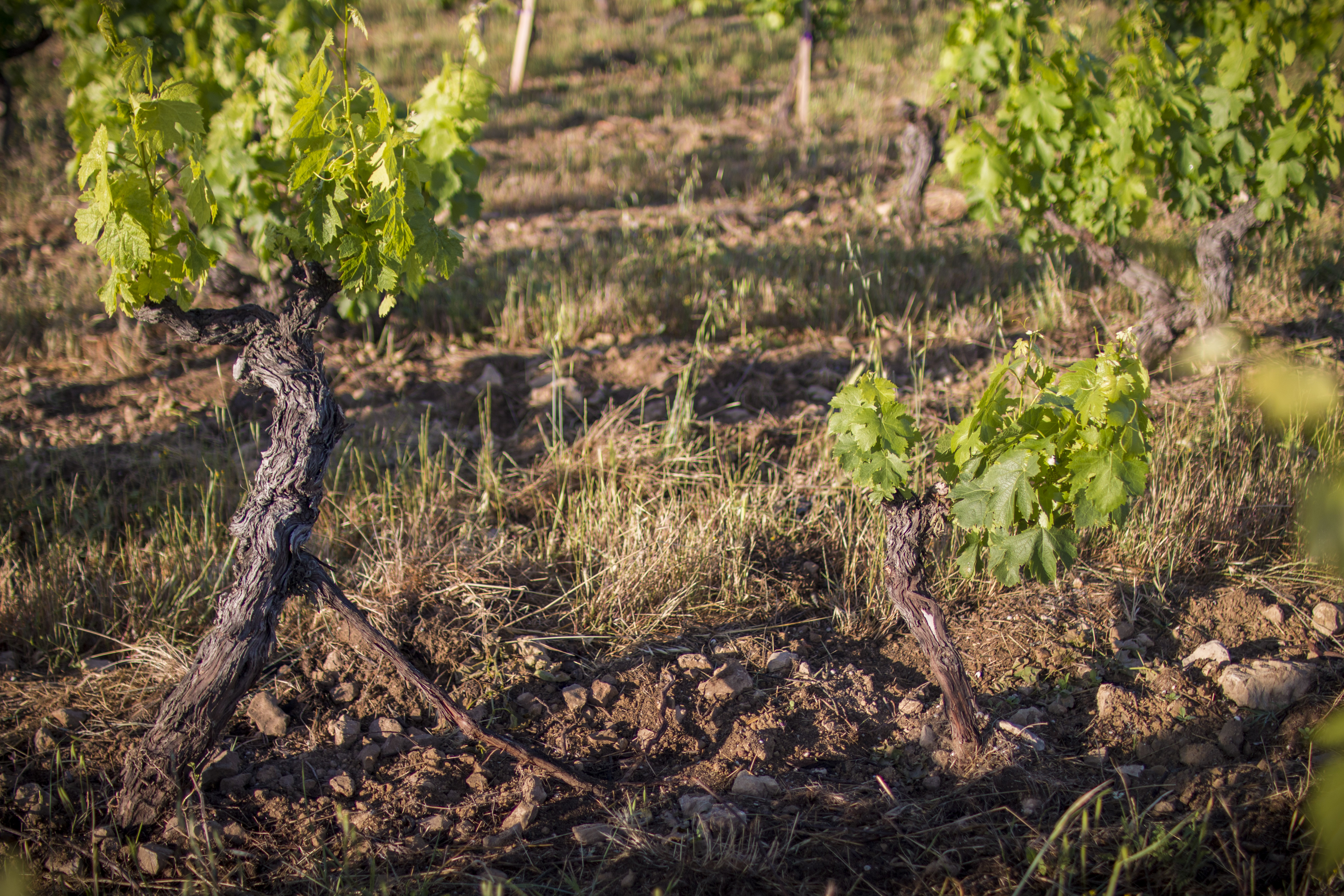 layering of vine plant